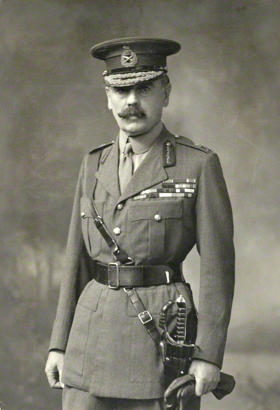 Portrait of Sir Francis Lloyd. Official War Office Photograph. Pre-1955 so in the public domain.